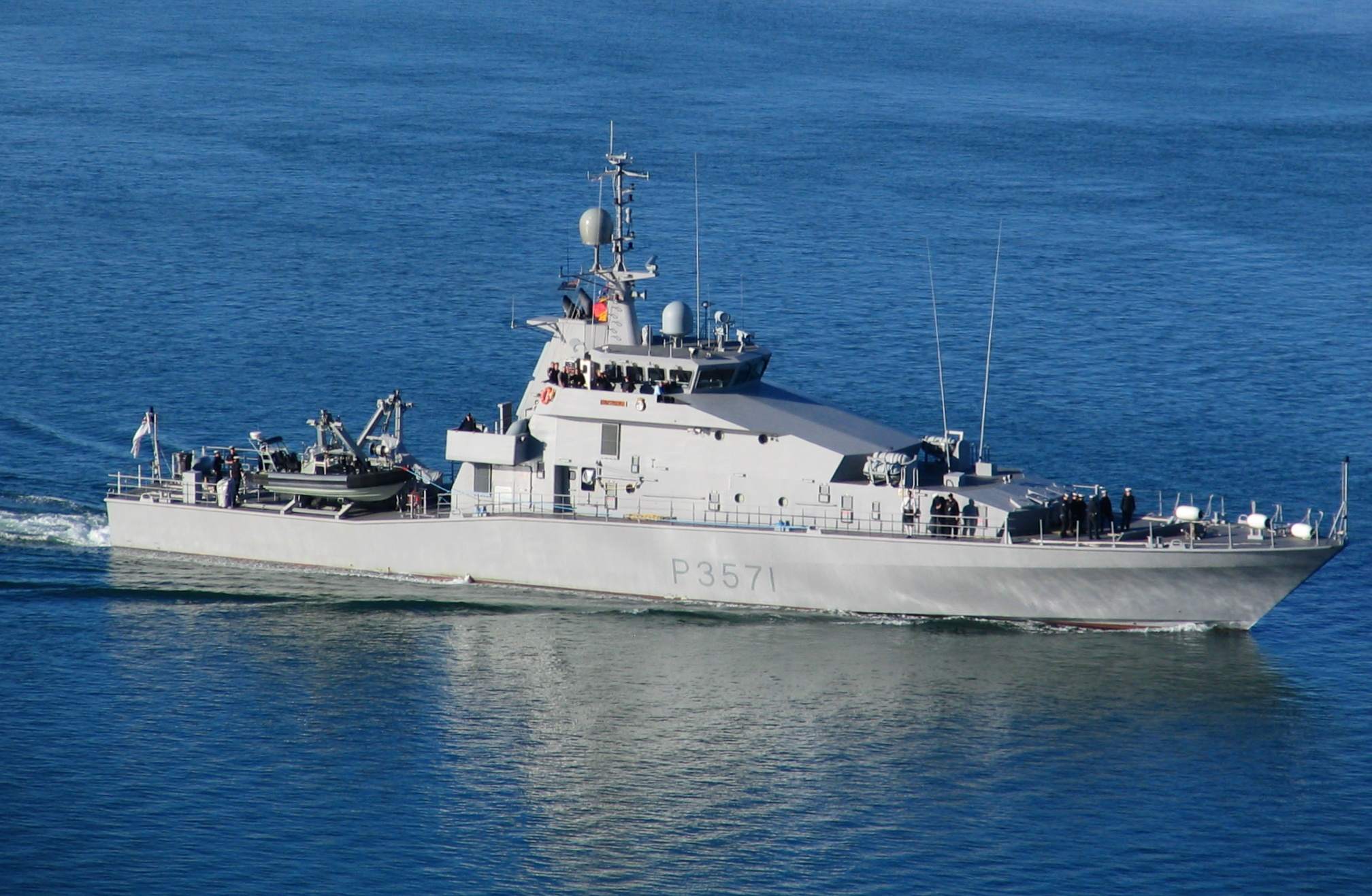 Protector-class inshore patrol boat HMNZS Hawea (P3571) entering Otago Harbour, New Zealand